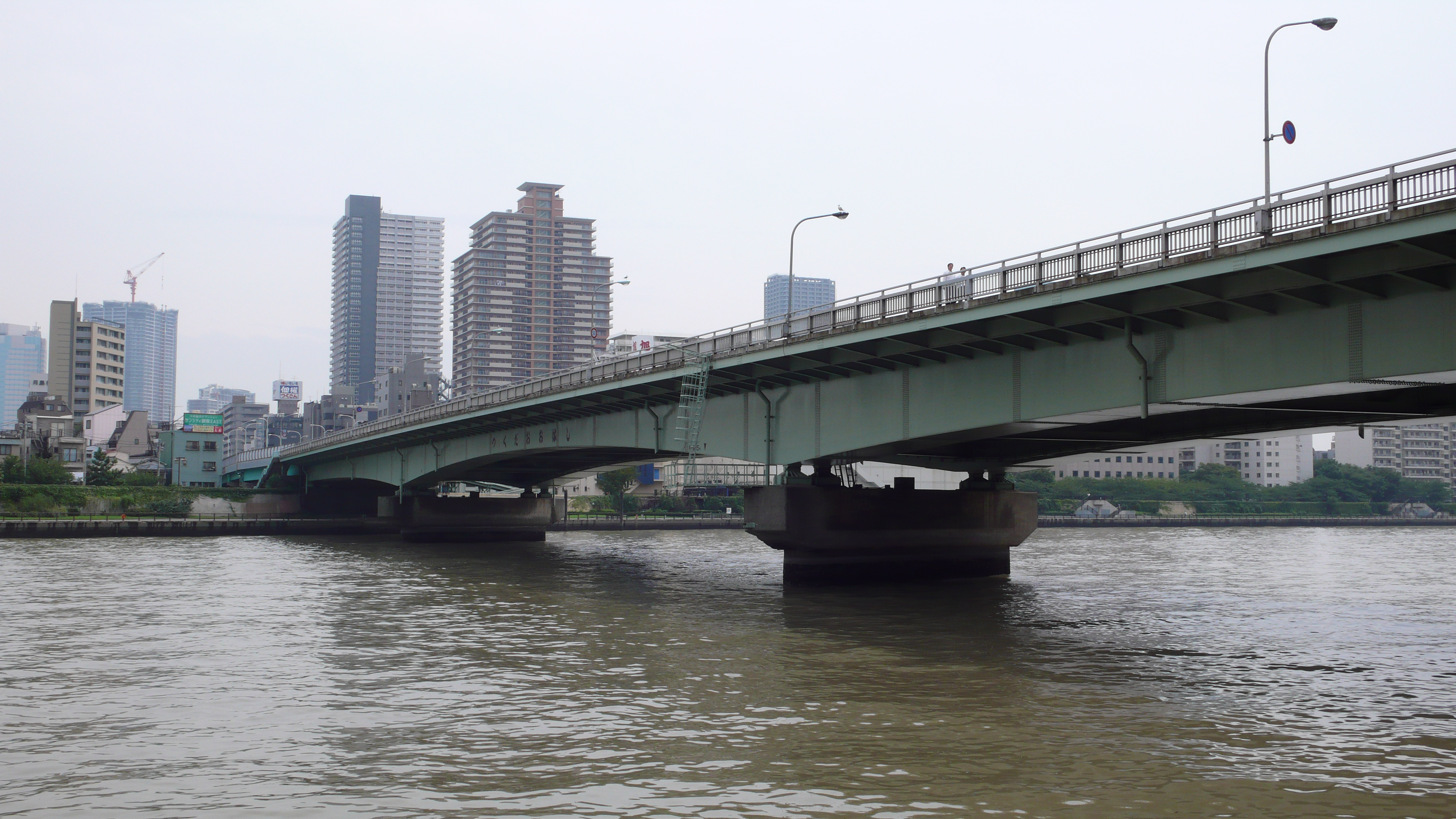 Tsukuda-Ōhashi Bridge over the Sumida River